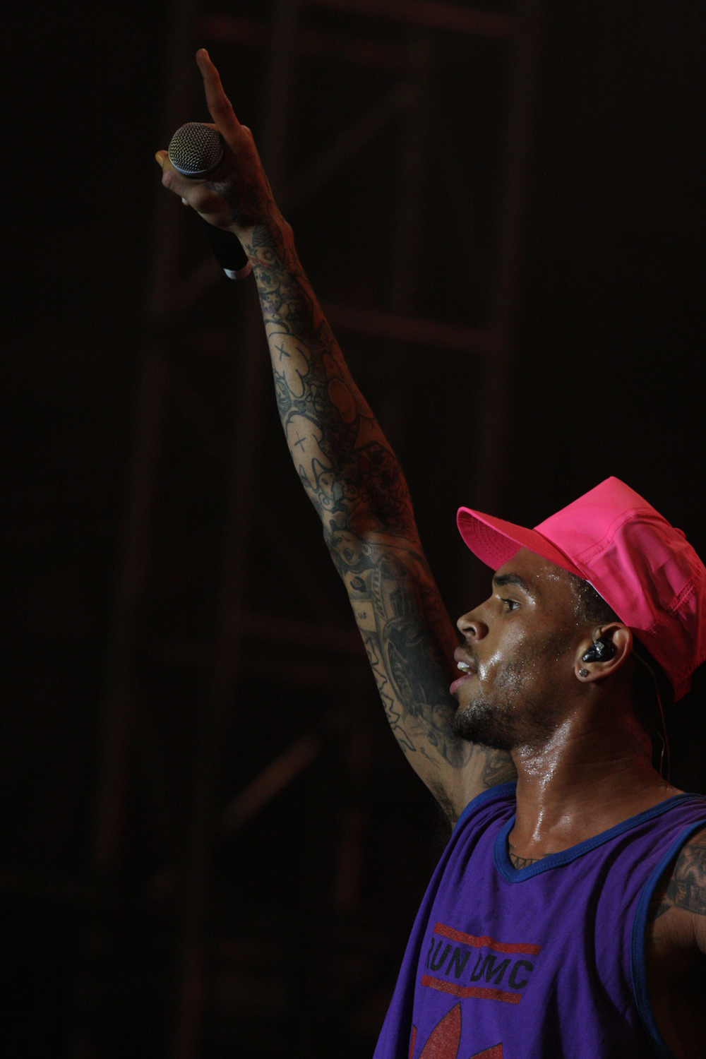 Supafest 2012, Sydney, Australia; Chris Brown, Kelly Rowland, Lupe Fiasco, Naughty By Nature and more